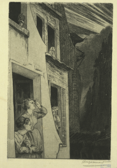 L'éclipse, acquaforta, by Félix Bracquemond, in Sonnets et eaux-fortes, Paris, 1869.